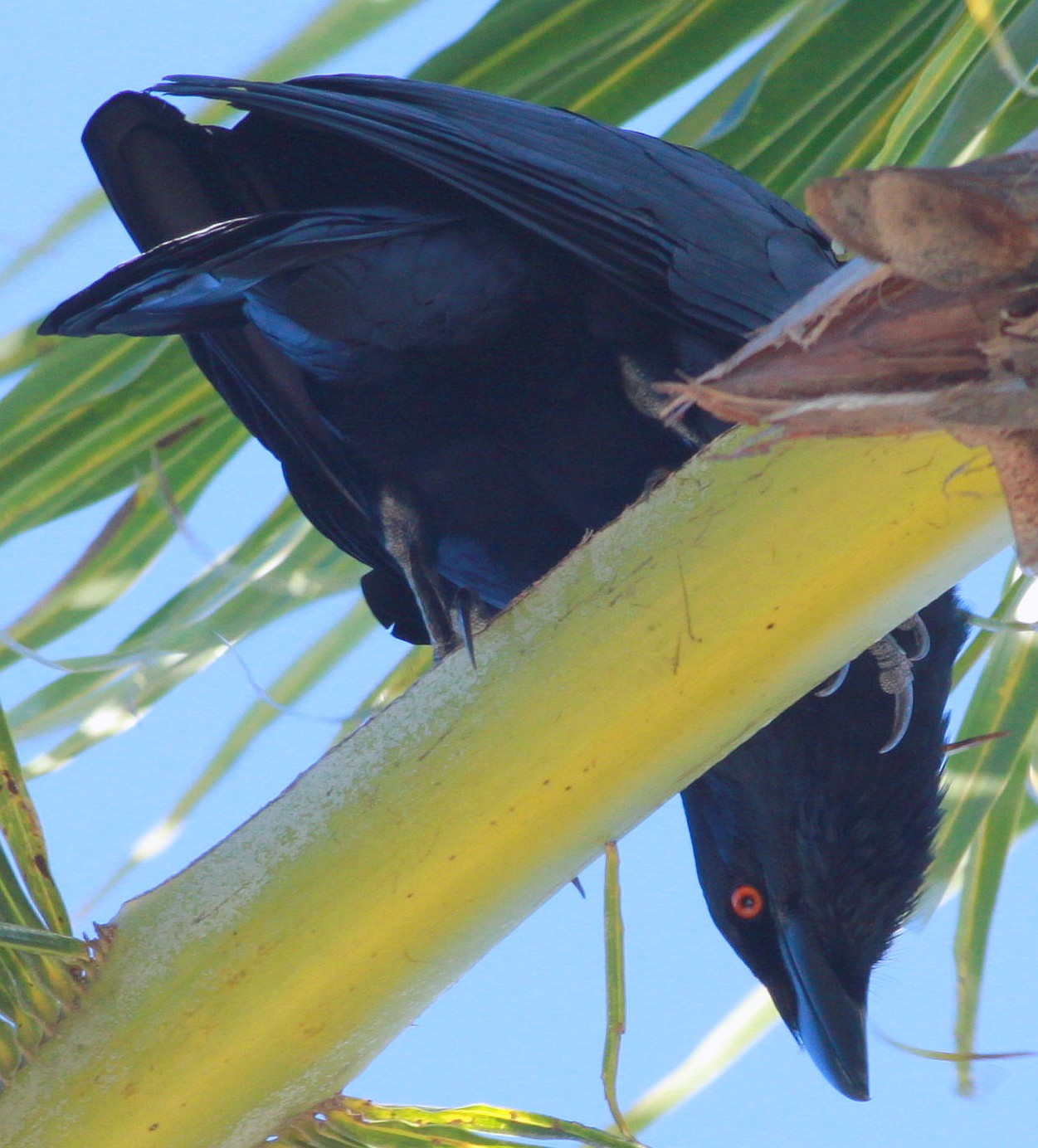 Probably, White-Necked Crow. Corvus leucognaphalus Dominican Republic, Saona Island.